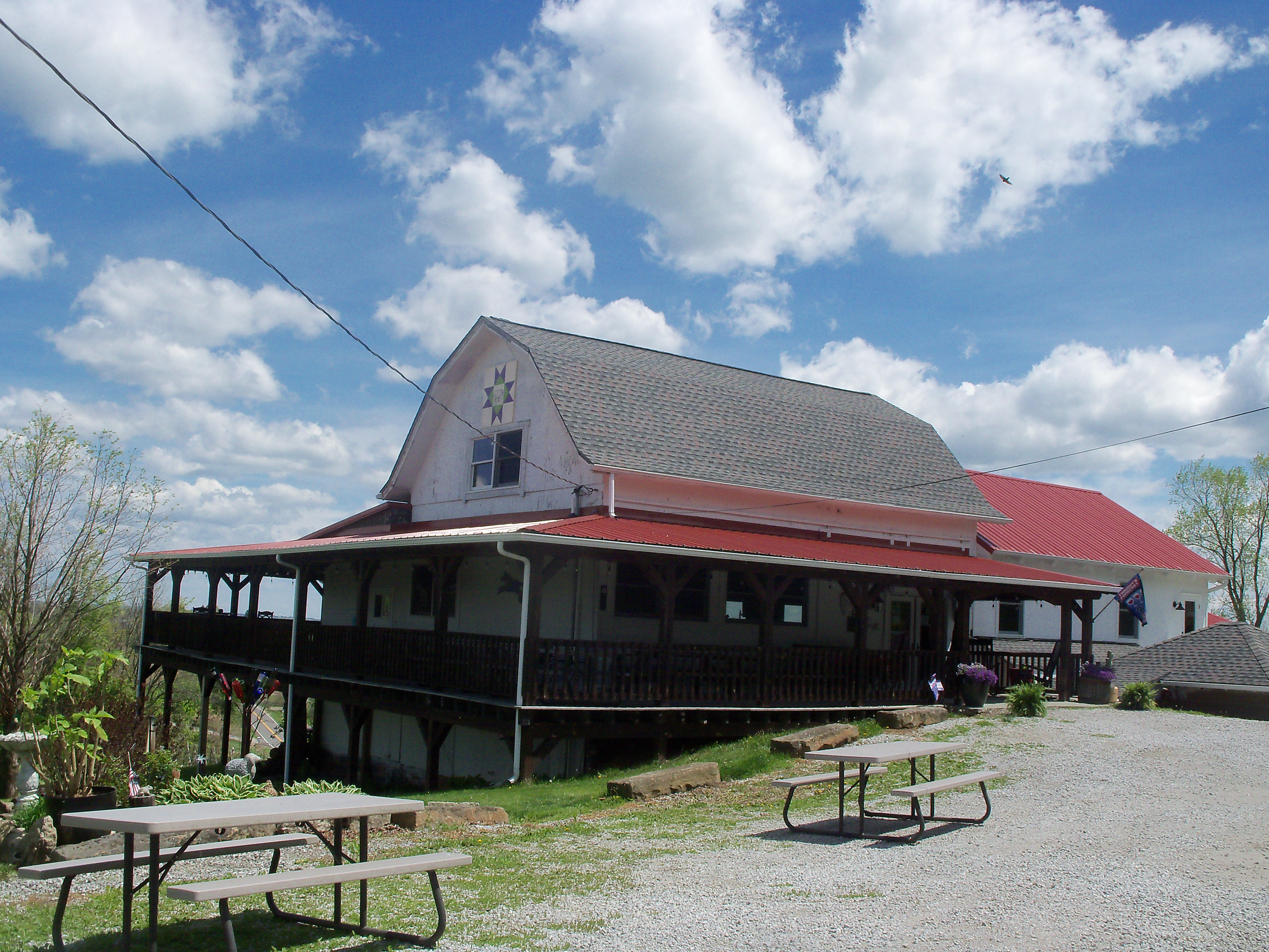 Black Sheep Vineyard, 1454 U. S. Route 250, Adena, Ohio 43901. Established on a former sheep farm, opened to the public in 2008.